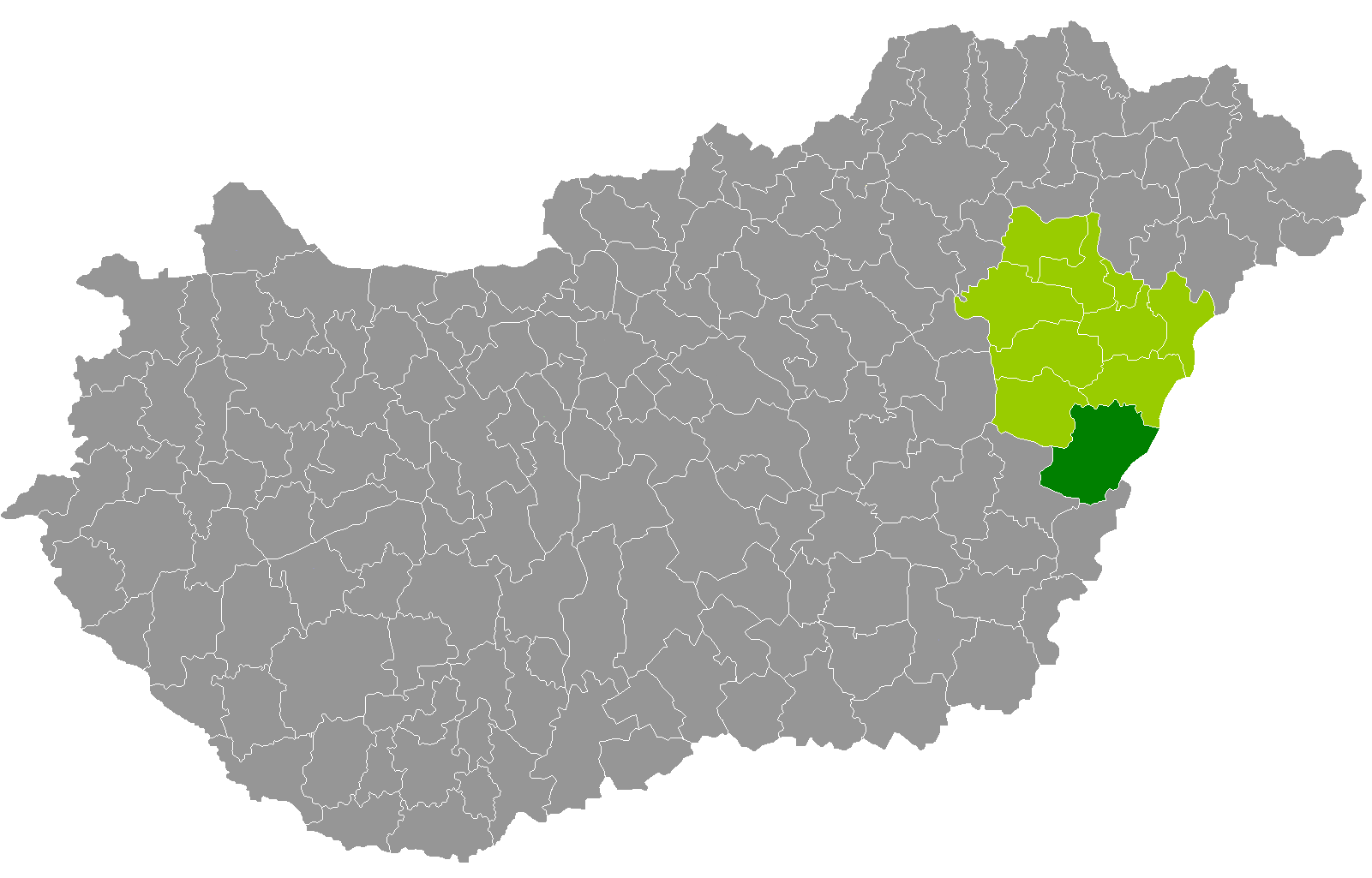 Location of Berettyóújfalui District, Hajdú-Bihar, Hungary